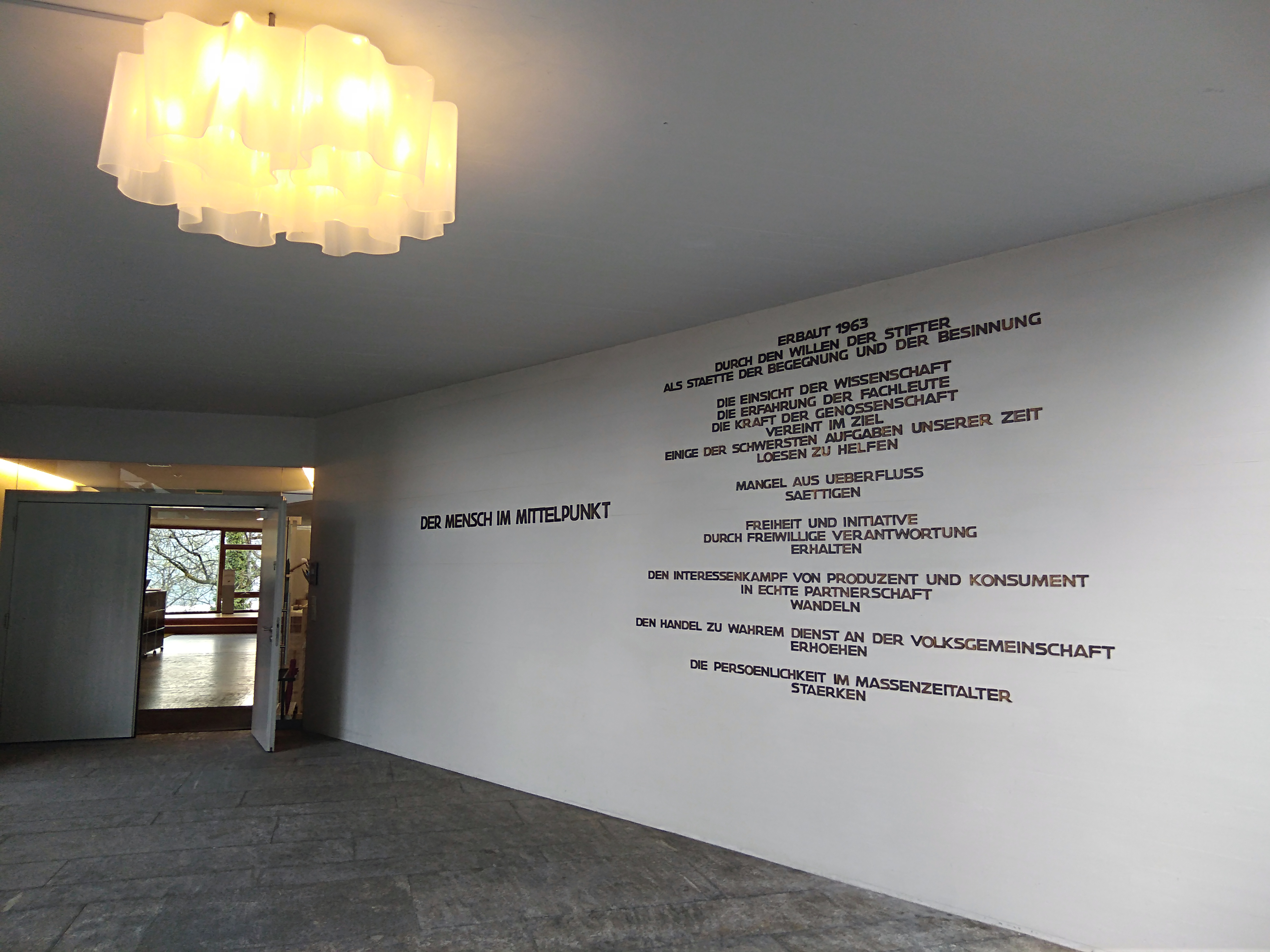 Gottlieb Duttweiler Institut Inschrift Eingang